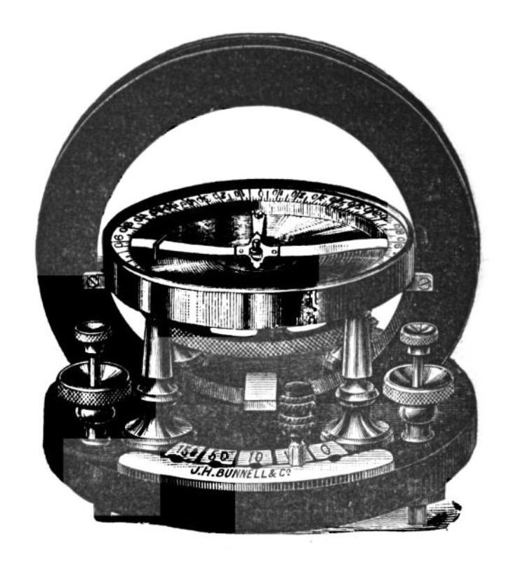 Drawing of tangent galvanometer from around 1890, made by J.H. Bunnel Co. Base 7 in. diameter. This was a type known as a 'Western Union standard'. It has 5 separate coils of resistance ~0, 1, 10, 50, and 150 ohms. The 7/8 in. compass needle in the center can have a silk fiber suspension.